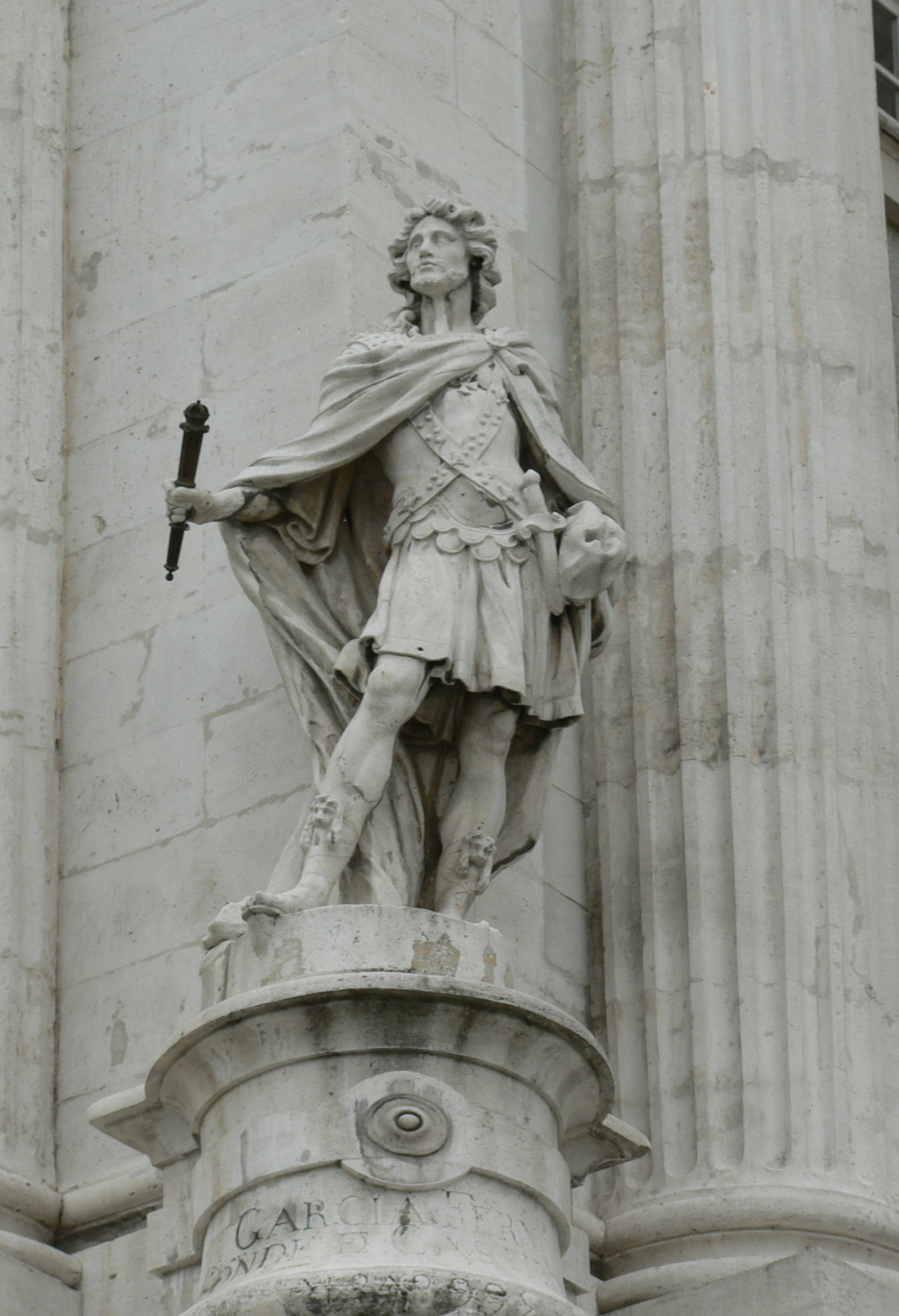 Statue of Rechiar or Reckiair, Suevic King, (448-456). In the Esth facade of the Main Floor of the Real Palace of Madrid.